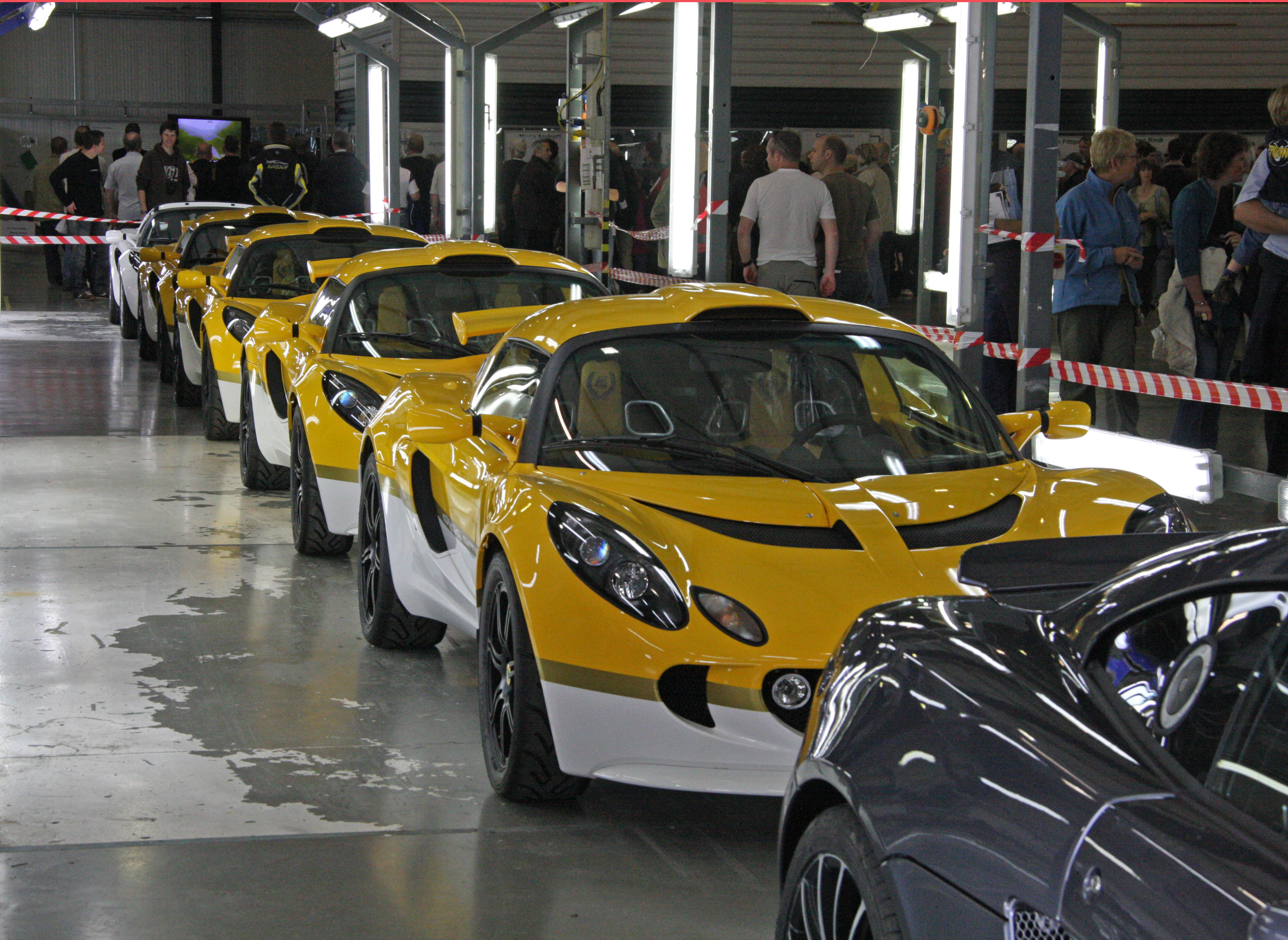 Lotus 60th Celebration